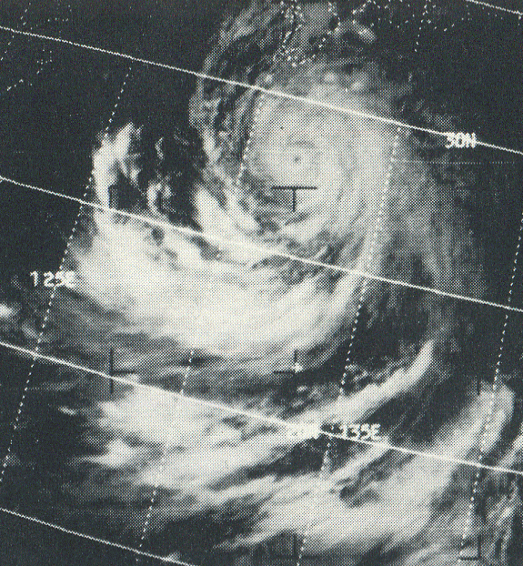 This ESSA 9 weather satellite photo of Typhoon Olive was taken on August 3, 1971 at 0505 UTC